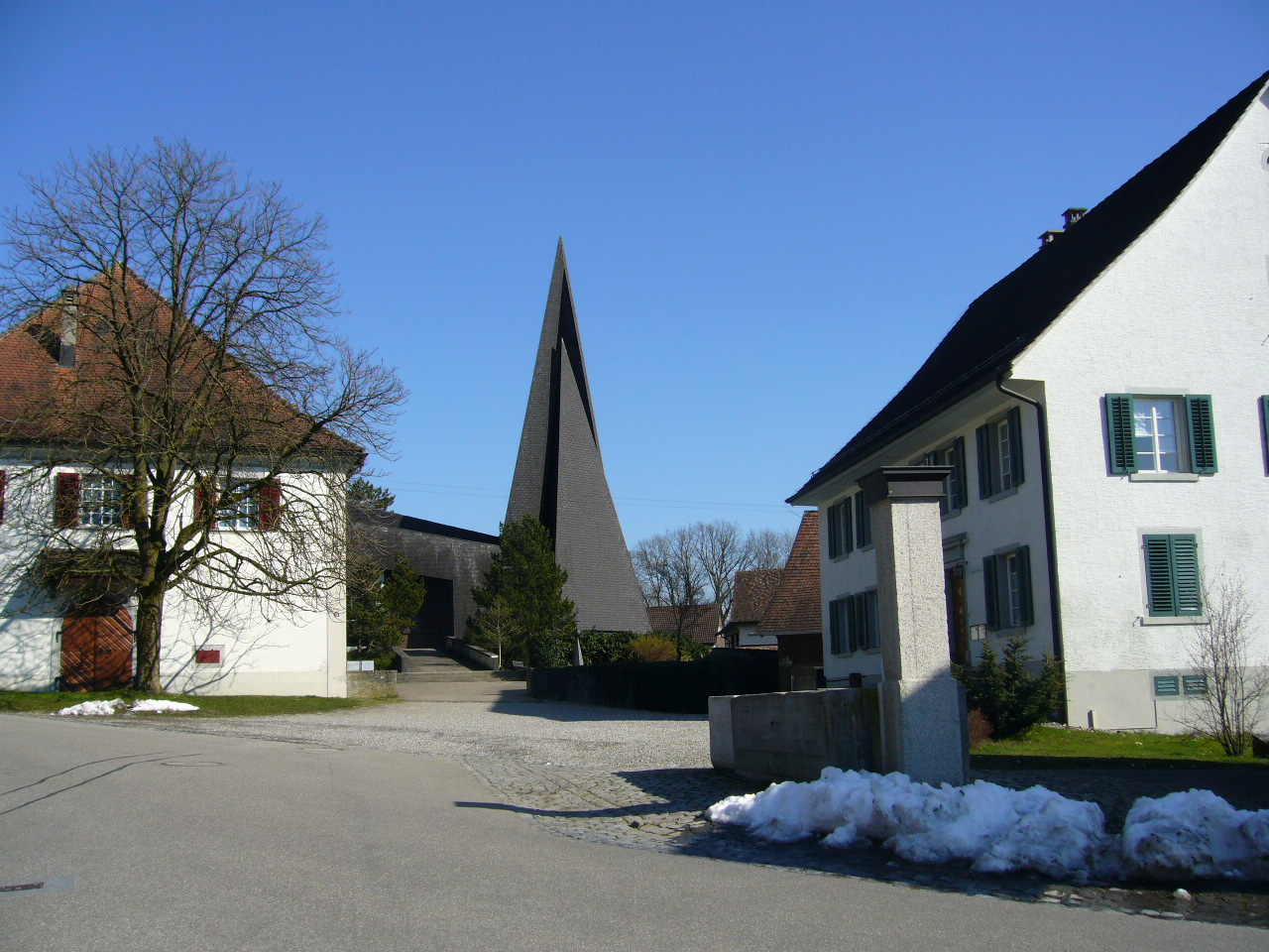 Roman Catholic church and rectory (left) in the village of Hüttwilen, canton Thurgau, Switzerland. Picture taken by Peter Berger, March 26, 2007.